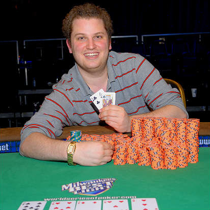 Scott Seiver after winning the $5,000 no-limit Hold'em event at the 2008 World Series of Poker.